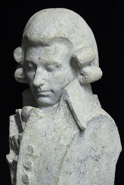 portrait of Mozart